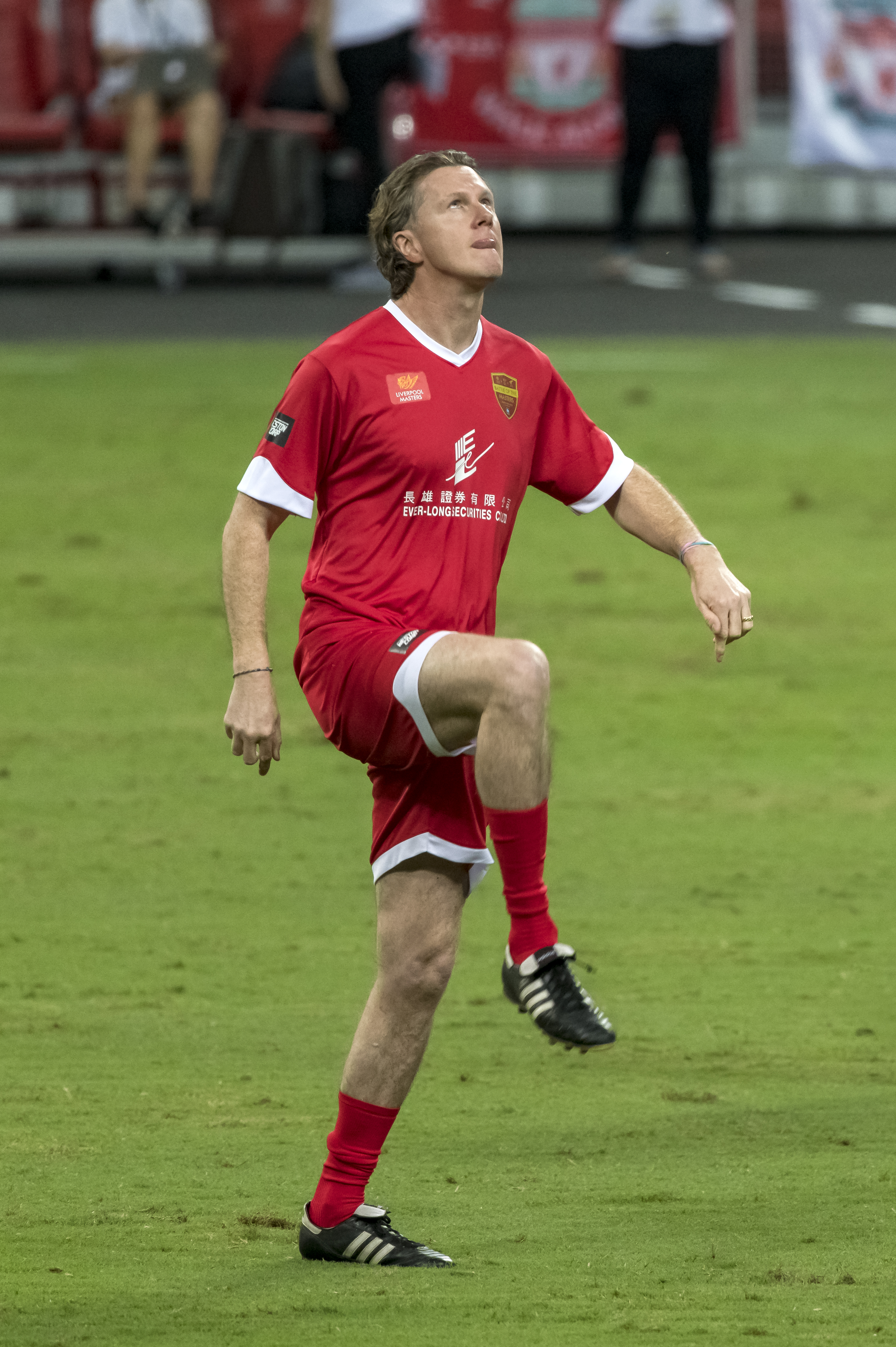 steve mcmanaman liverpool masters singapore national stadium 2017